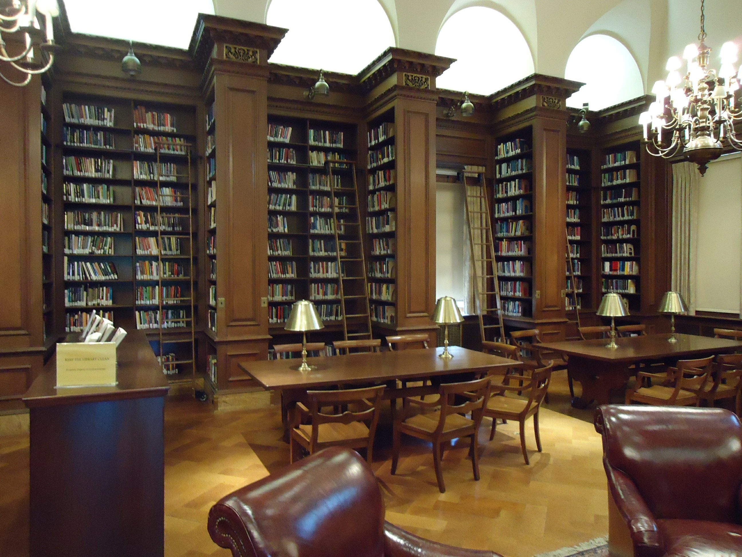 A photo from a campus tour of Lafayette College in Easton, Pennsylvania. Lafayette is a liberal arts college on a hill near the Delaware River. The super-tall bookshelves.